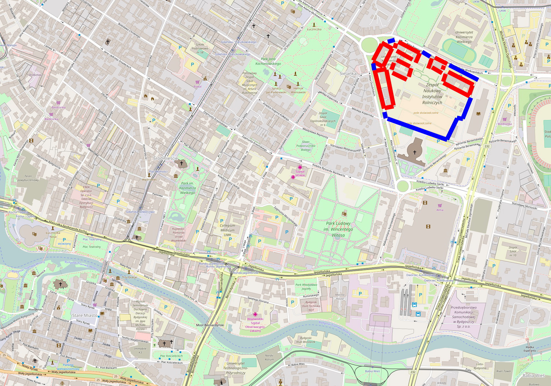 Buildings and location area